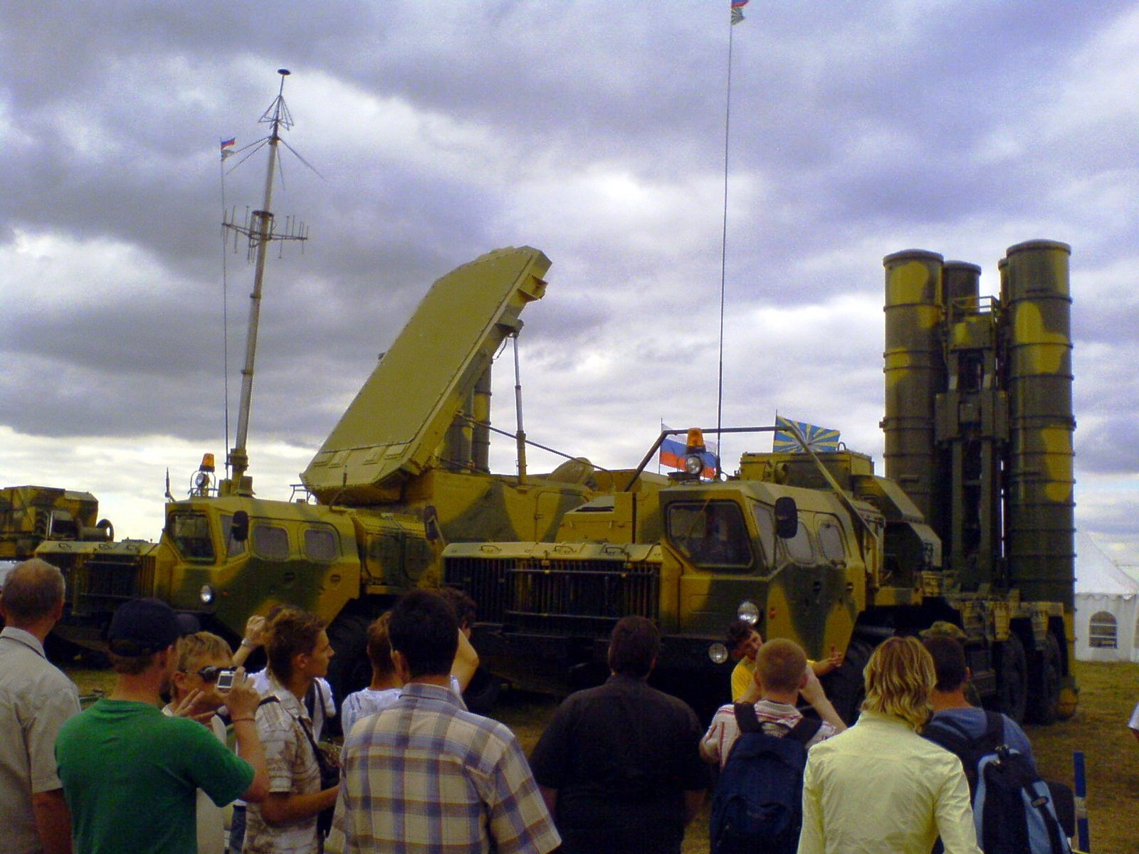 S-300PMU2 SAM at MAKS 2007.